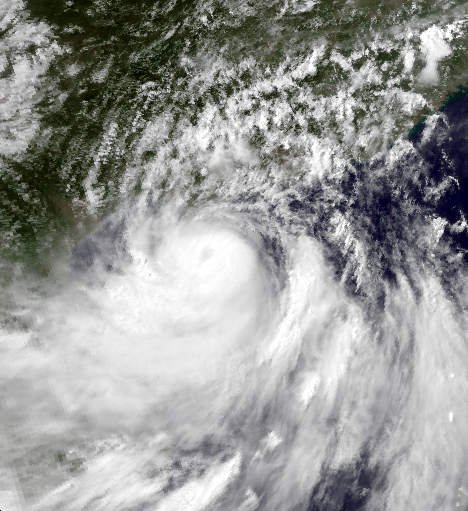 Typhoon Vera on July 17, 1983